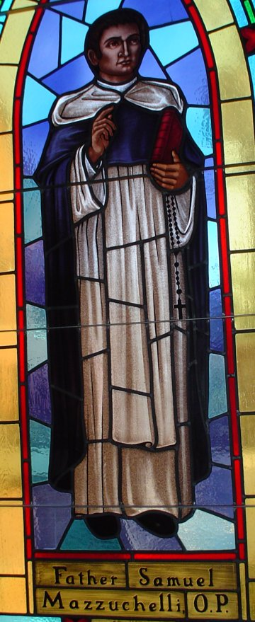 A stained glass image of Father Samuel Mazzuchelli from a window in Saint Raphael's Cathedral, Dubuque, Iowa